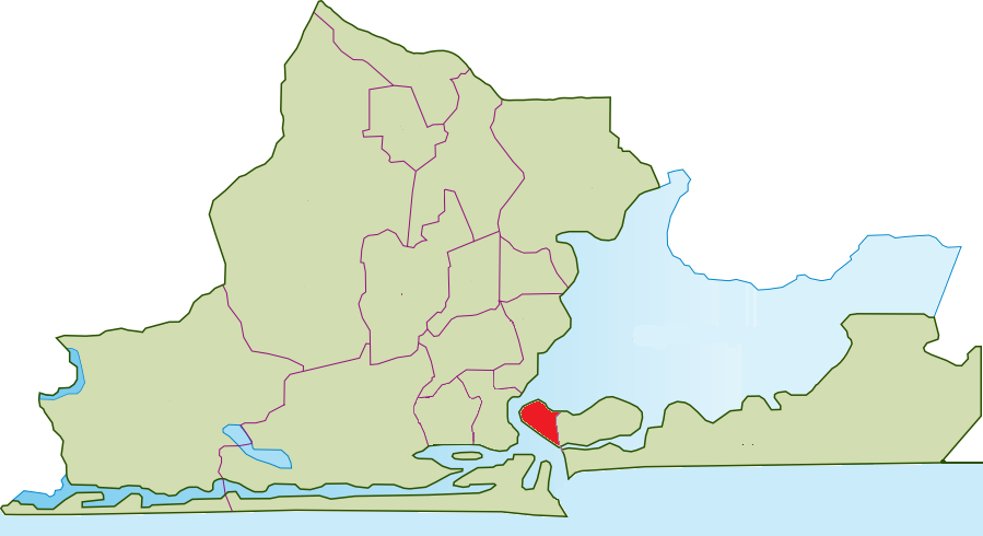 Map of the Local Governement Areas of Lagos; Lagos Island highlighted